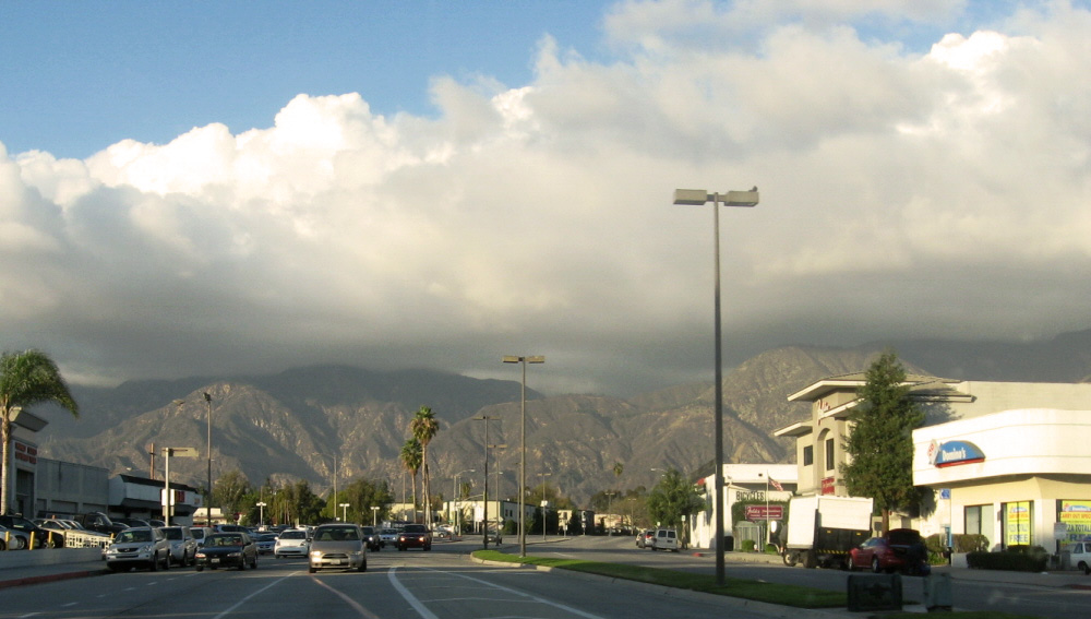 San Gabriel Mountains from Colorado Boulevard in east Pasadena, California in December. The clouds dropped snow on the mountains.